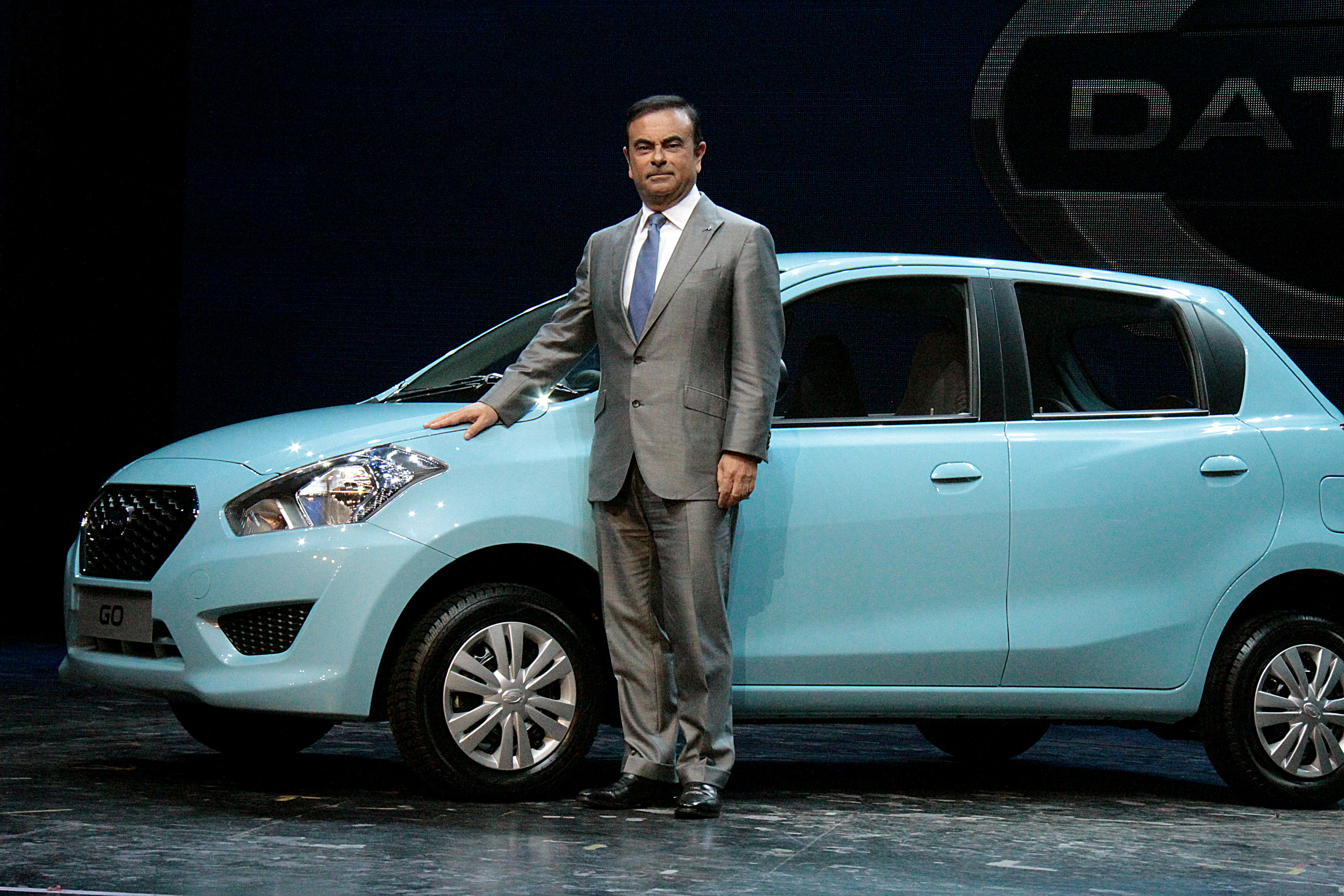 Carlos Ghosn at Datsun Launch New Delhi India 07/15/2013 - Picture by Bertel Schmitt